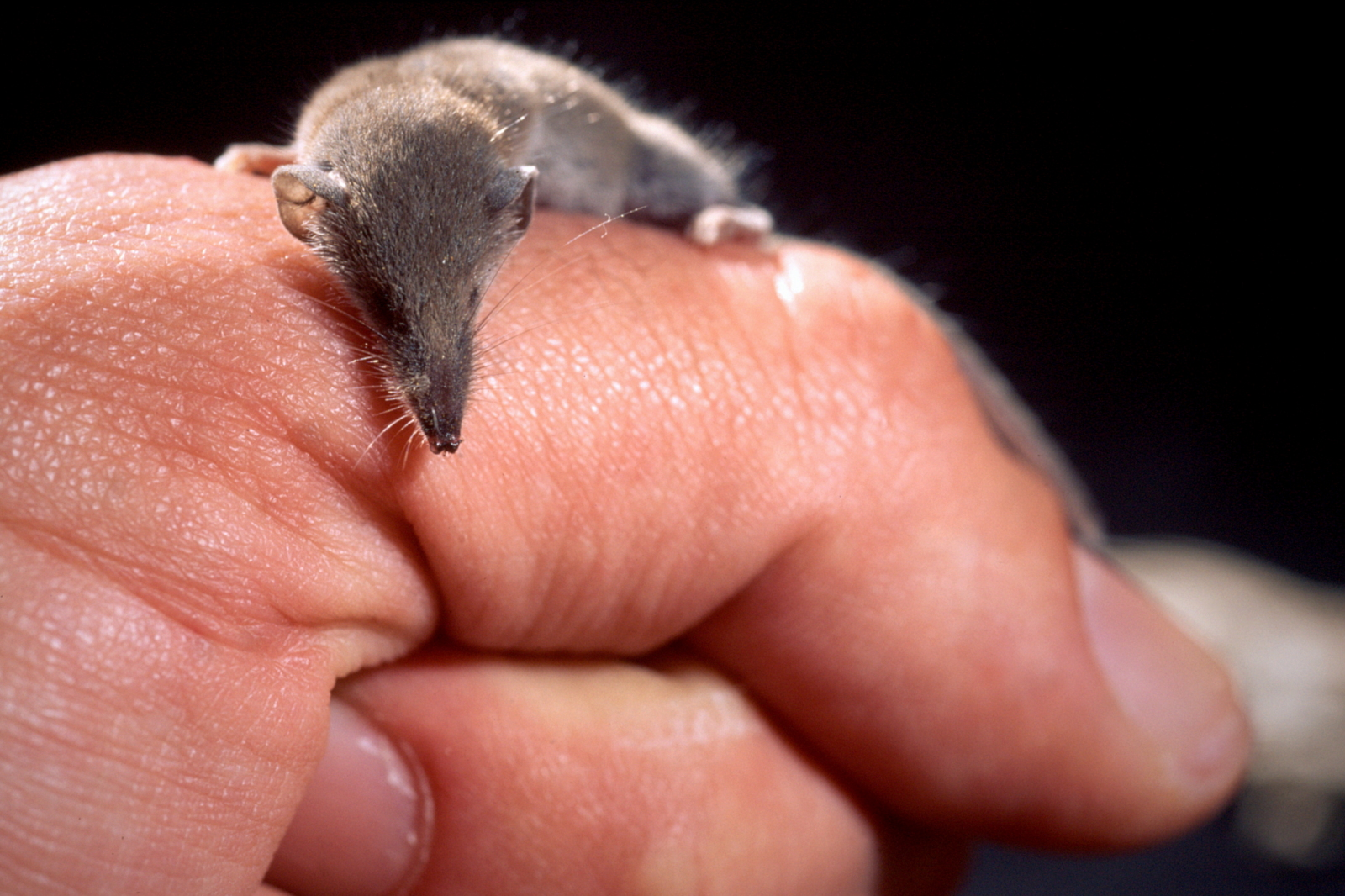 Suncus etruscus, the smallest mammal by weight of the world. Portrait over hand for comparison.